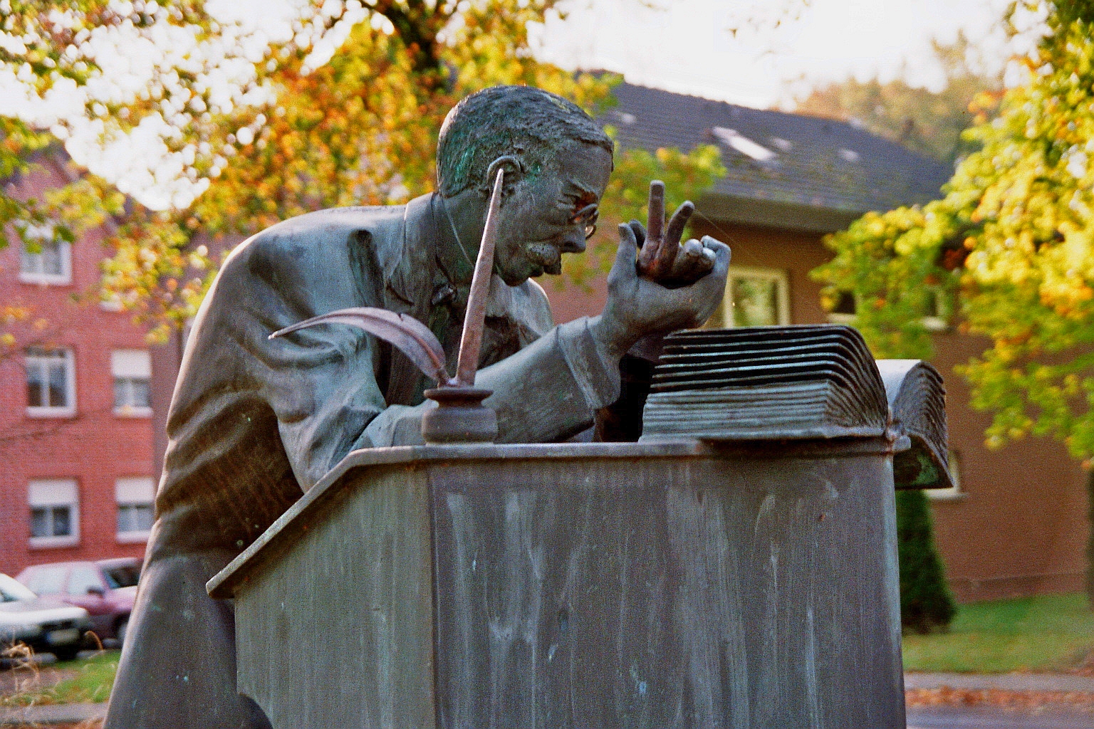 The Albert Trautmann Memorial (Albert-Trautmann-Denkmal) in Werlte, Landkreis Emsland, Lower Saxony, Germany. The bronze sculpture by Hans Gerd Ruwe was errected in 1989.